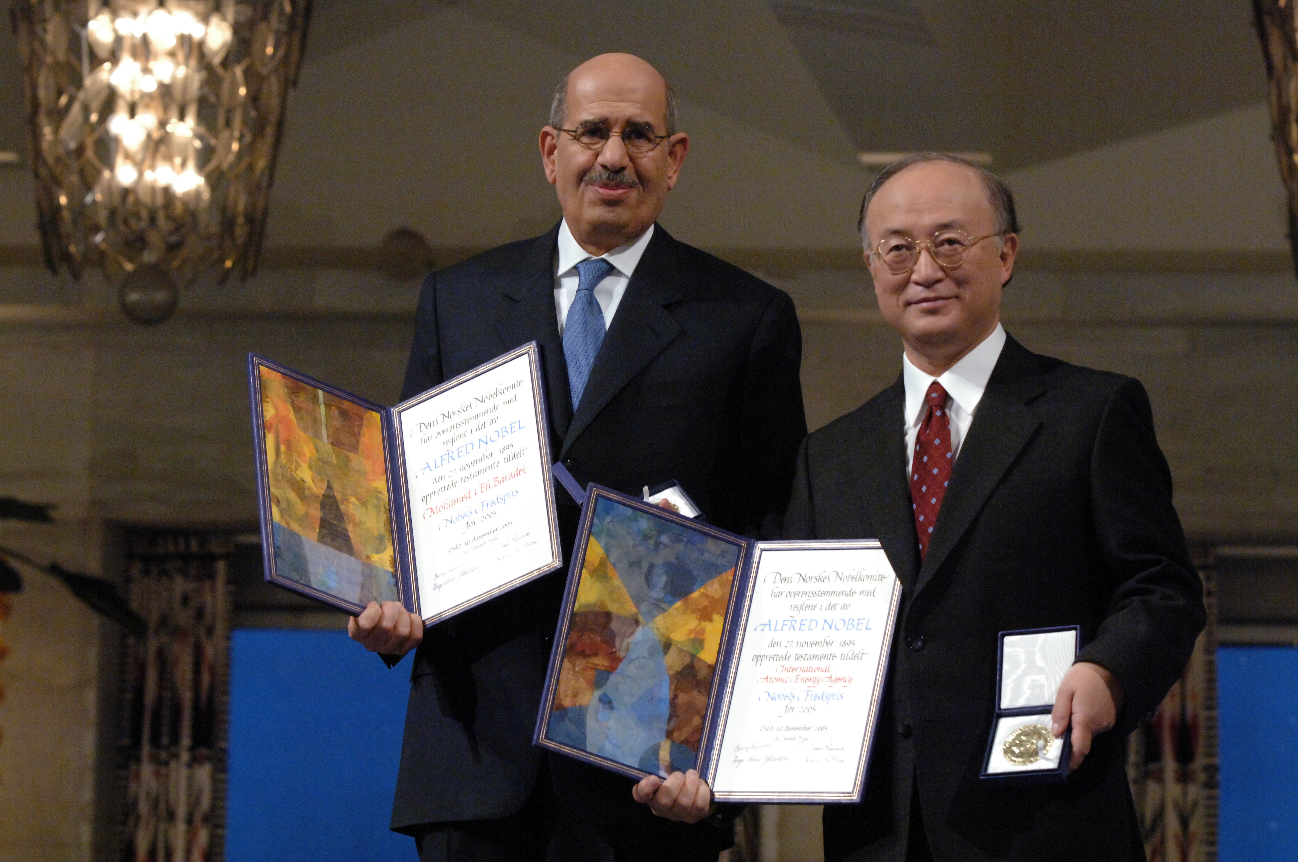 The Nobel Peace Prize 2005 was awarded to Director General Dr. Mohamed ElBaradei and the IAEA represented by Japanese Ambassdor Yukiya Amano. (Nobel Peace Prize Celebrations December 8-11, 2005, Oslo, Norway)